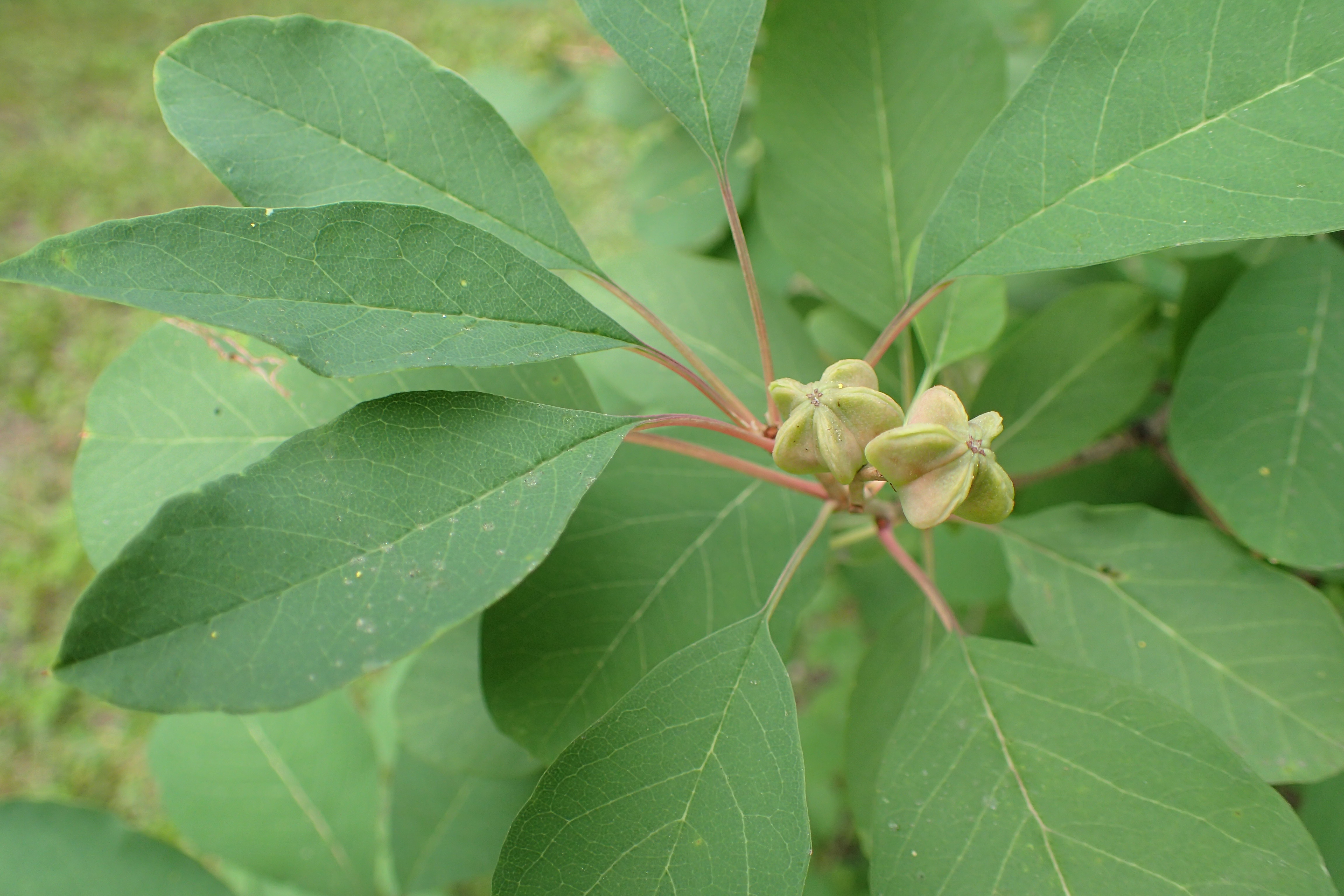 Exochorda racemosa in botanical garden of Kazimierz Wielki University in Bydgoszcz, Poland